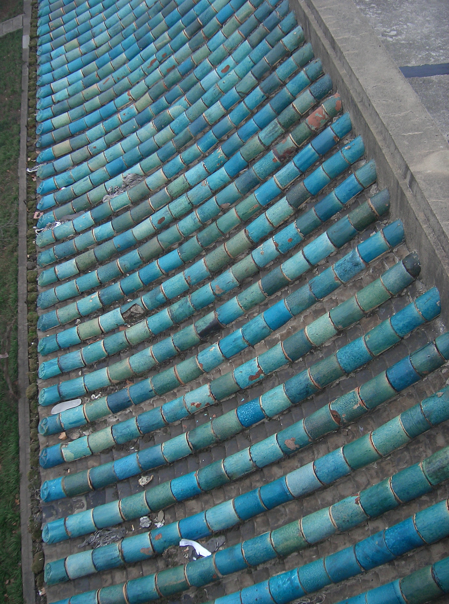 Wuhan University is famous for the distinctive blue/green tilings on its roofs.